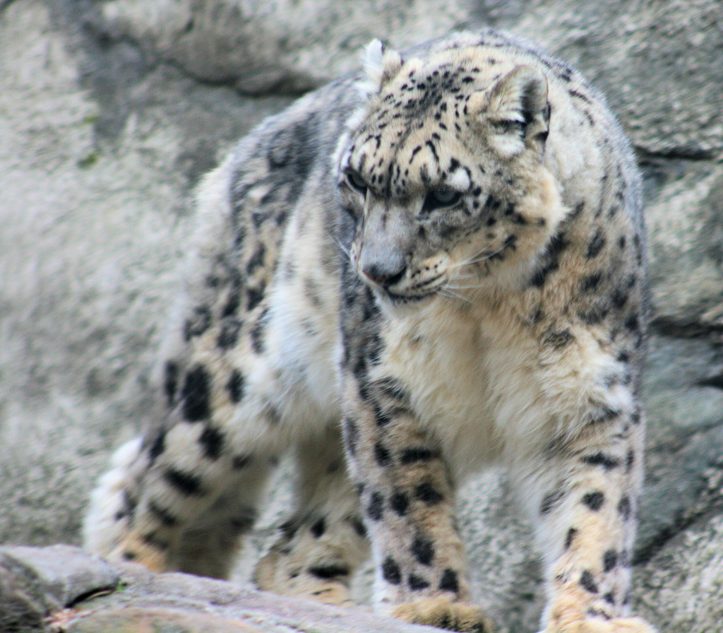 Snow Leopard at Bronx Zoo.